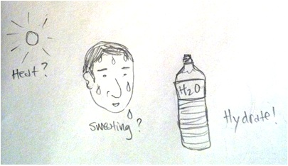 hydration is a way to prevent rhabdomyolysis